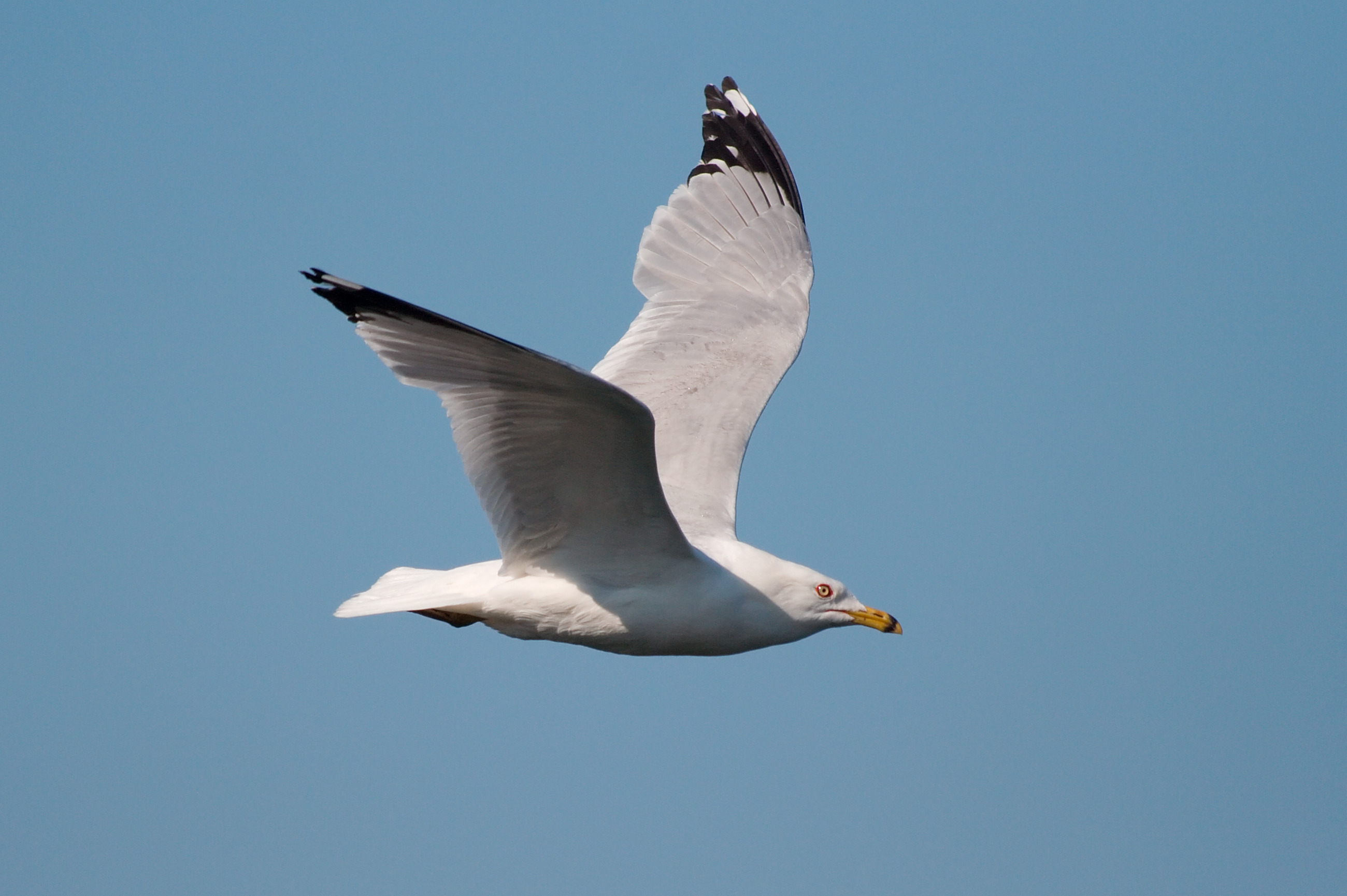 A Ring-billed Gull in flight, taken in Milwaukee, Wisconsin